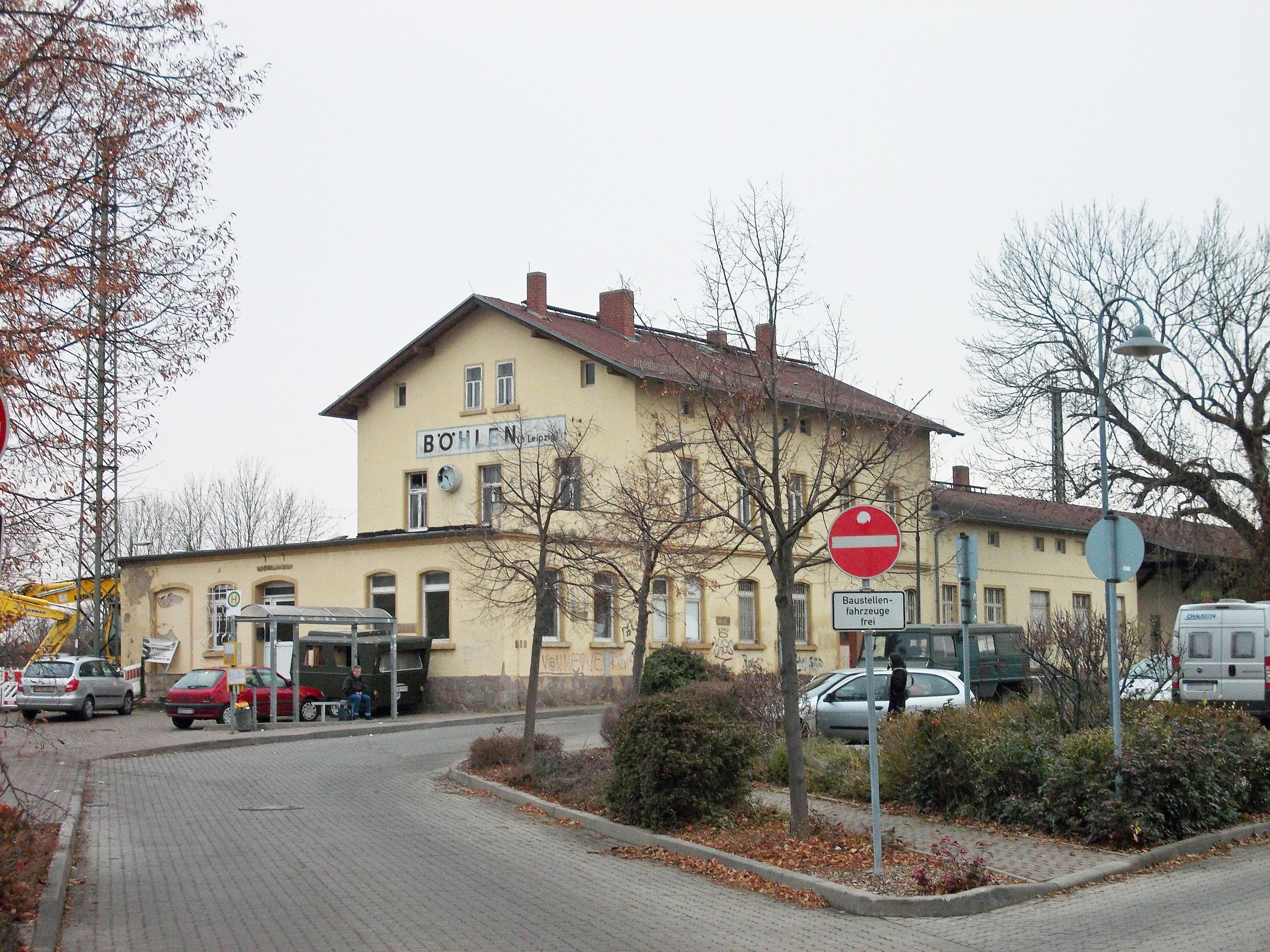 Böhlen train station (Leipzig district, Saxony)